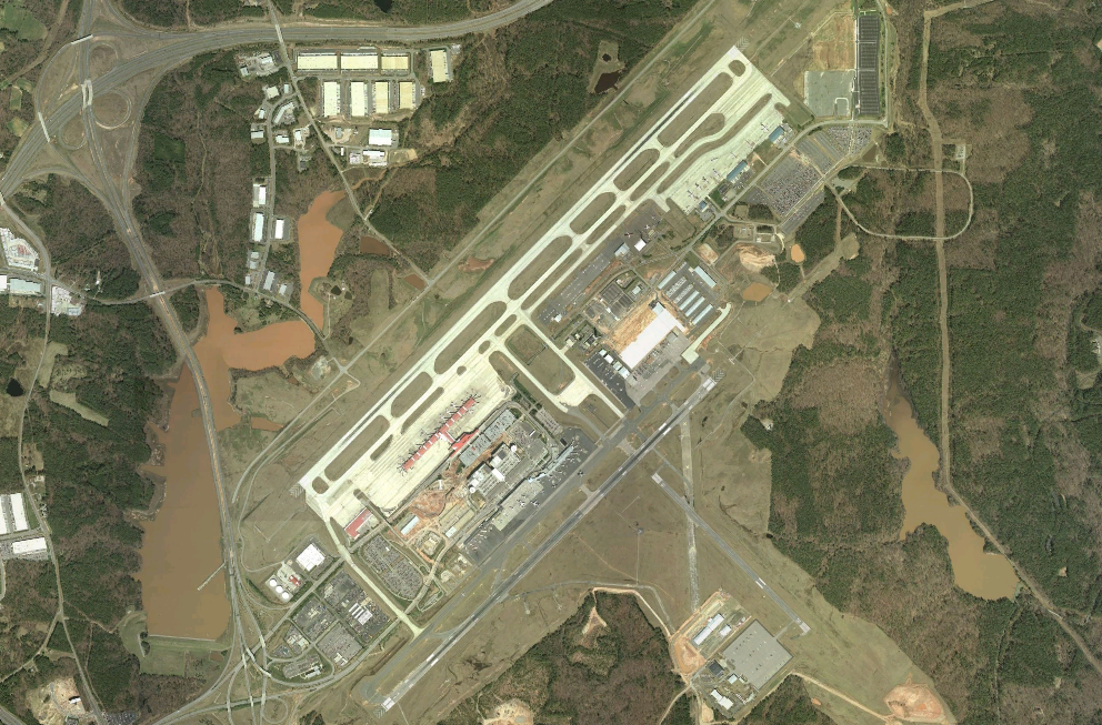 Satellite view of Raleigh Durham International Airport via NASA World Wind 1.3.5